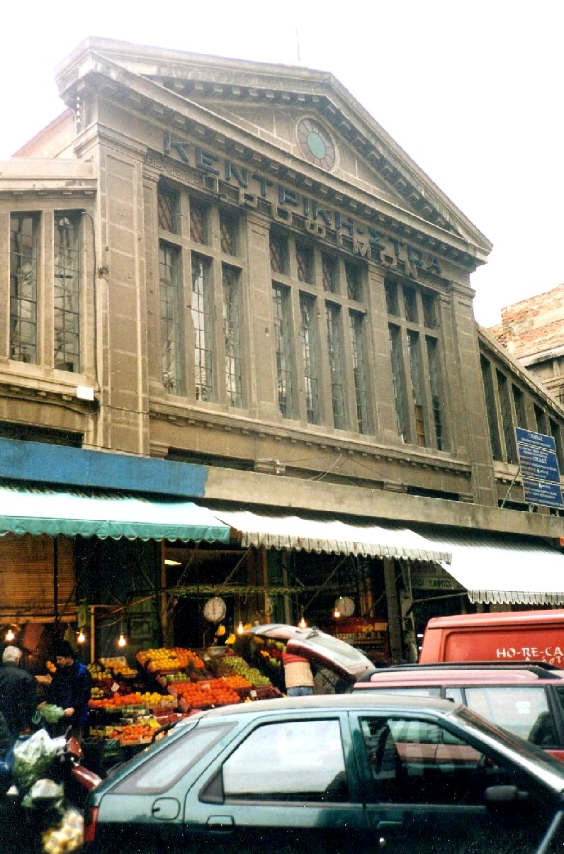 The old central market of Modiano (Kapani) in Thessaloniki, Greece.